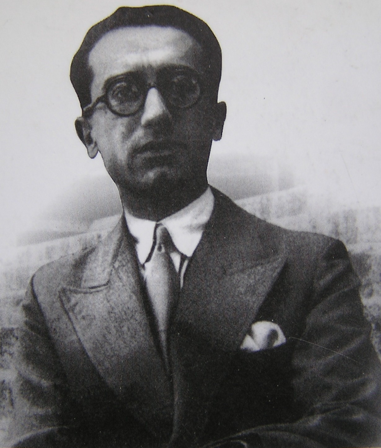 Aldo Capitini (1899 – 1968), an Italian philosopher and anti-Fascist, known as "the Italian Gandhi".